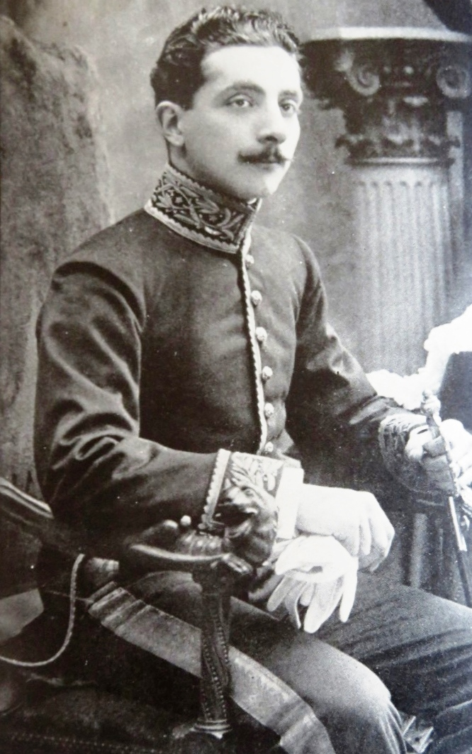 Picture of Ernesto Balmaceda in Diplomatic Uniform